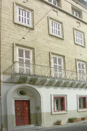 alliance française de malte's office